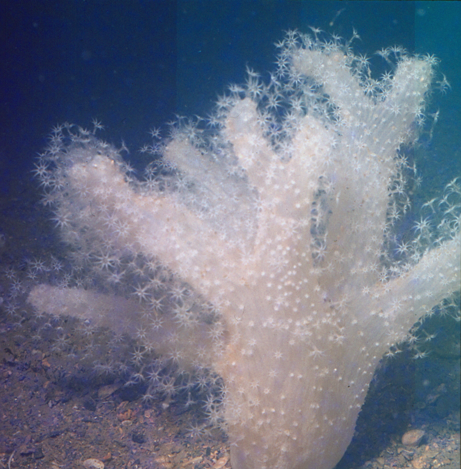 Alcyonium palmatum Pallas, 1766 - Banyuls-sur-Mer, Cap Béar : 07/1980